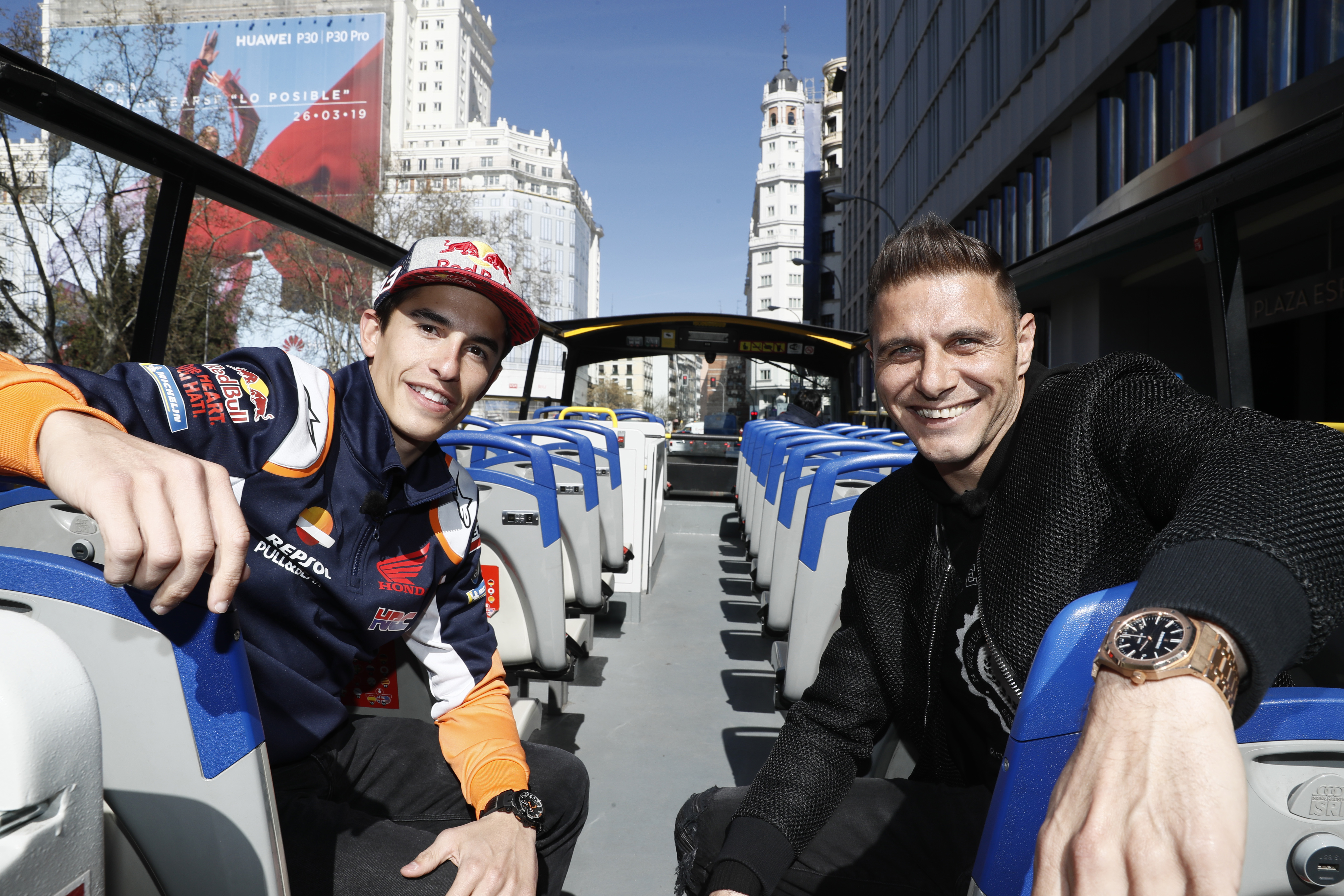 Marquez vs Joaquim desafio 2019. Entrevista de Joaquín a Marc Márquez.